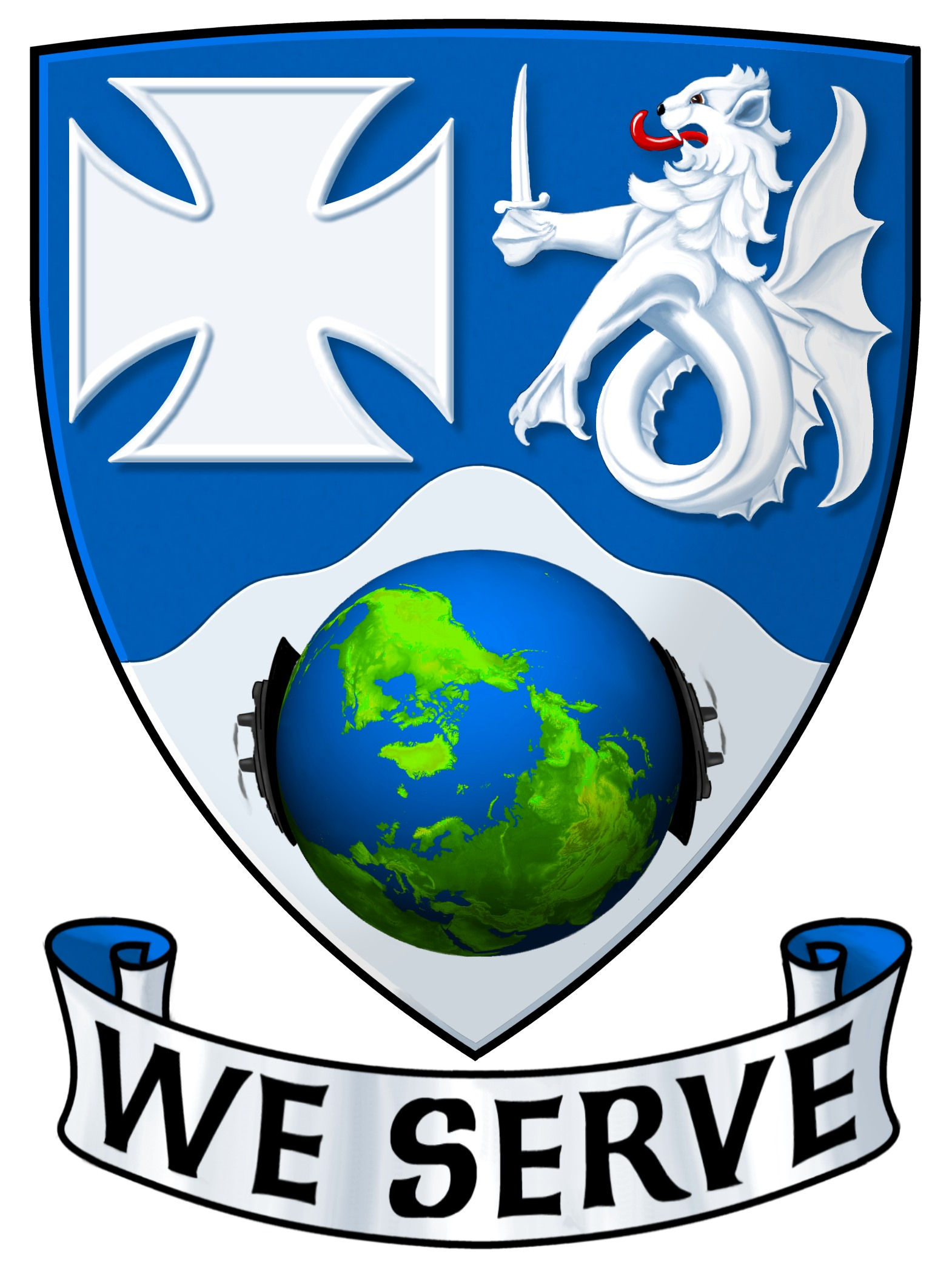 Primarily for larger or simple applications.